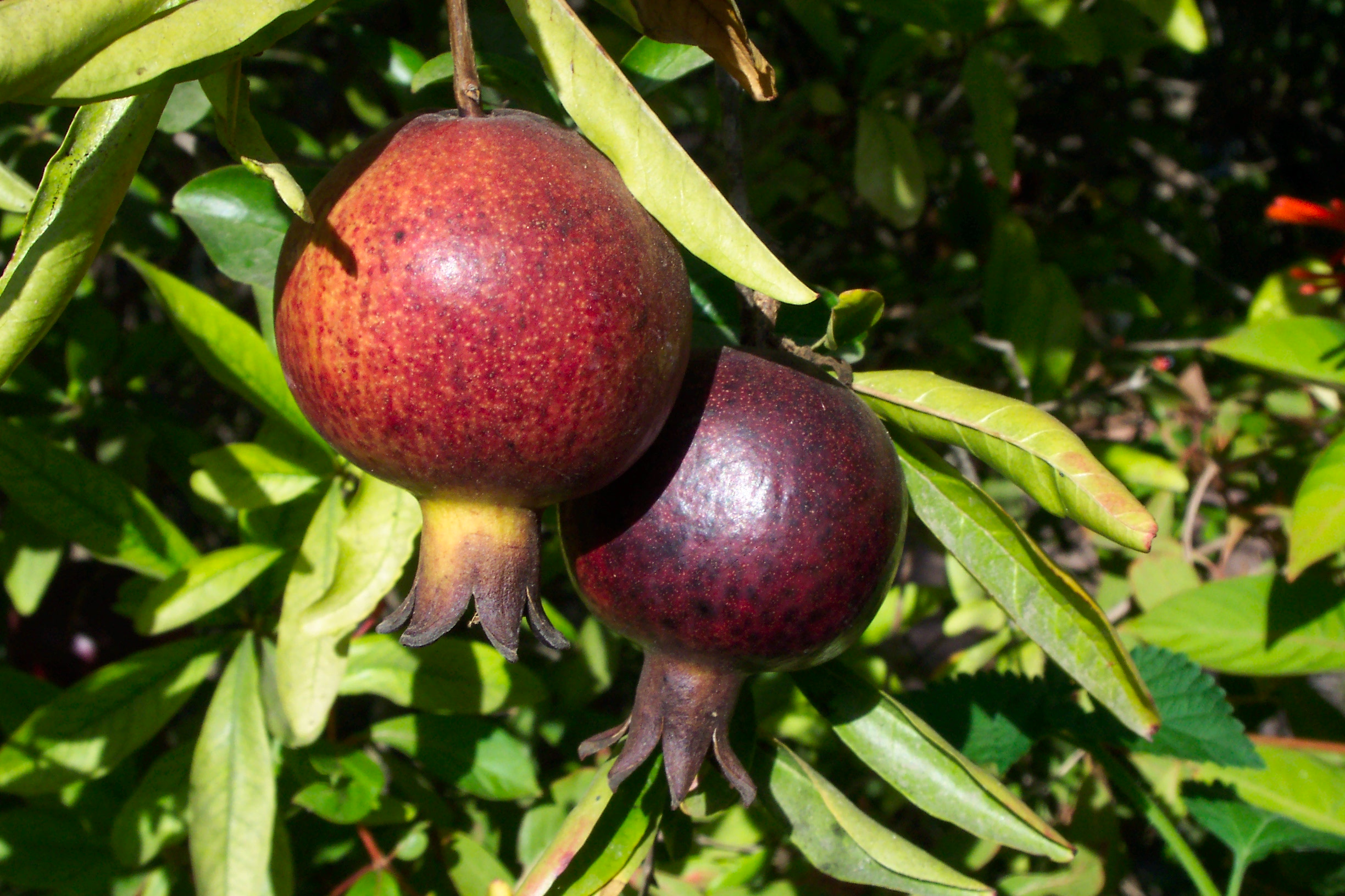 fruit trees